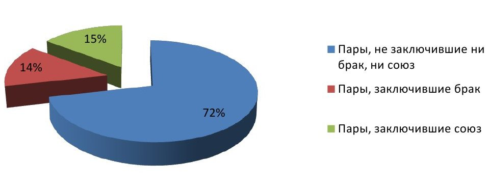 Same sex couples pie chart